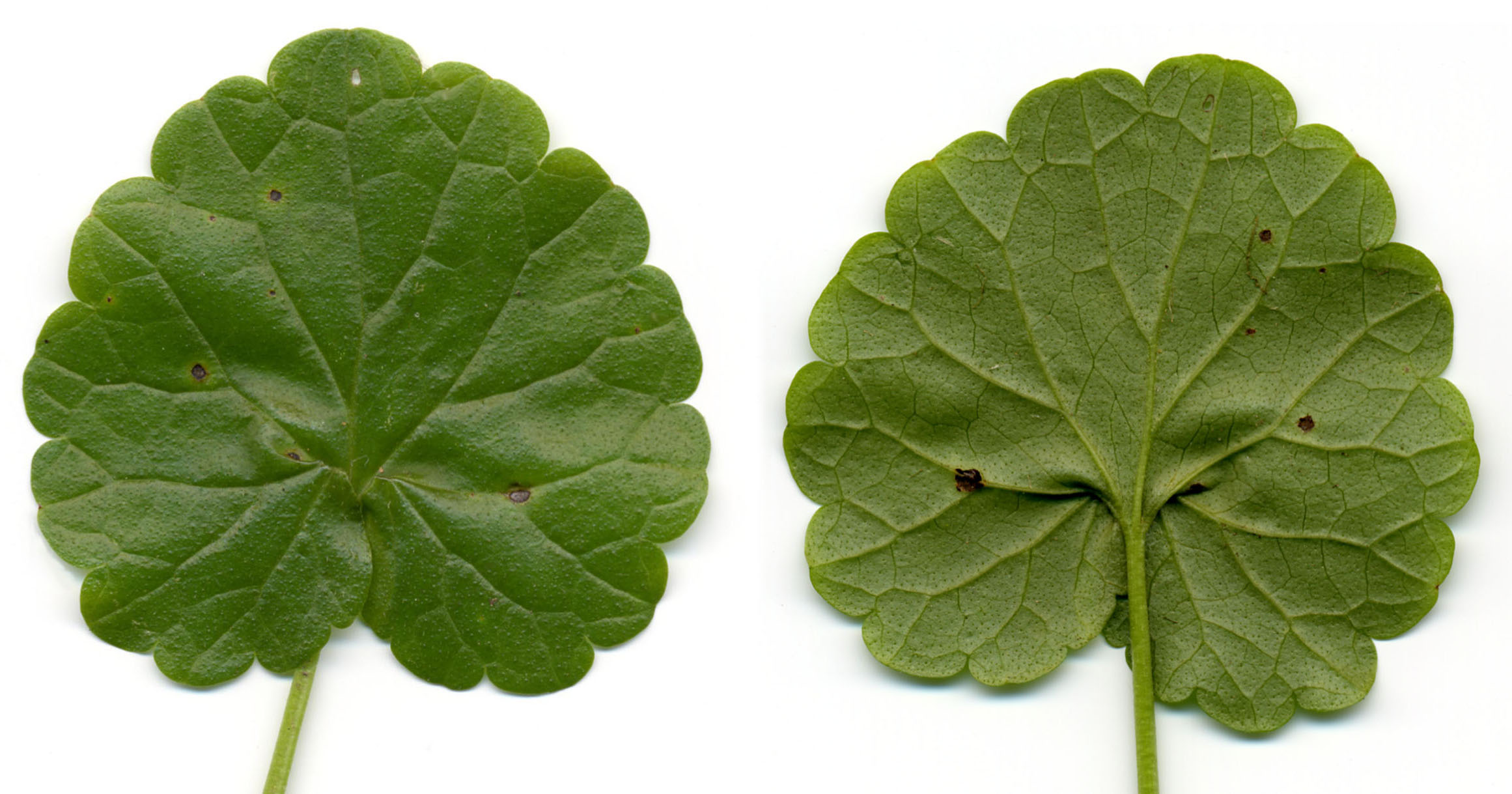 A leaf of Glechoma hederacea; left: top side, right: bottom side. Diameter of the leaf: ~6 cm.